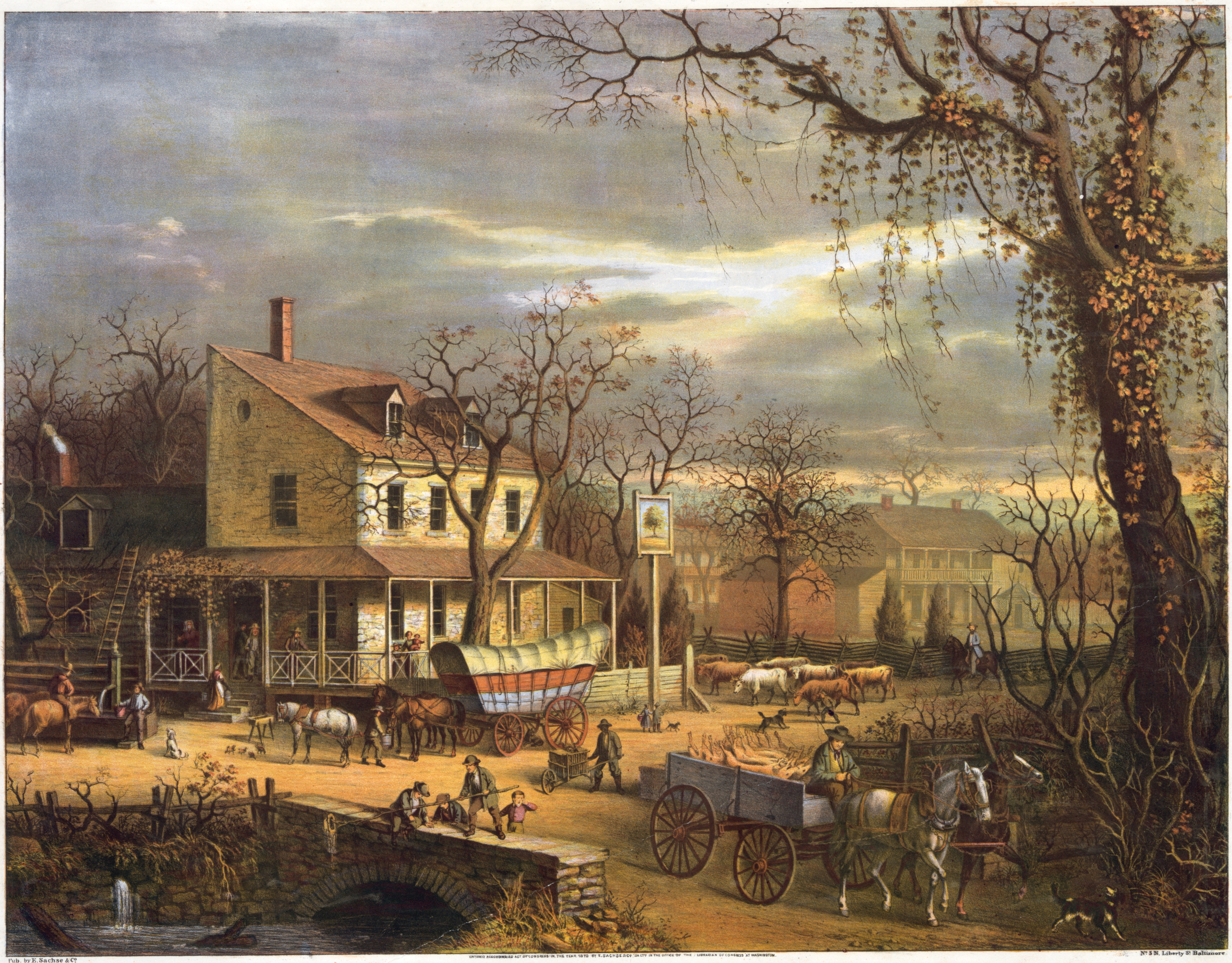 American scenery - the inn on the roadside Print showing a busy autumn scene outside an inn at a crossroads, in the lower right, a man drives a cart hauling slaughtered pigs, at center is a conestoga wagon in front of the inn, to the right of center, in the middle distance, is a cluster of buildings. 1 print : chromolithograph.